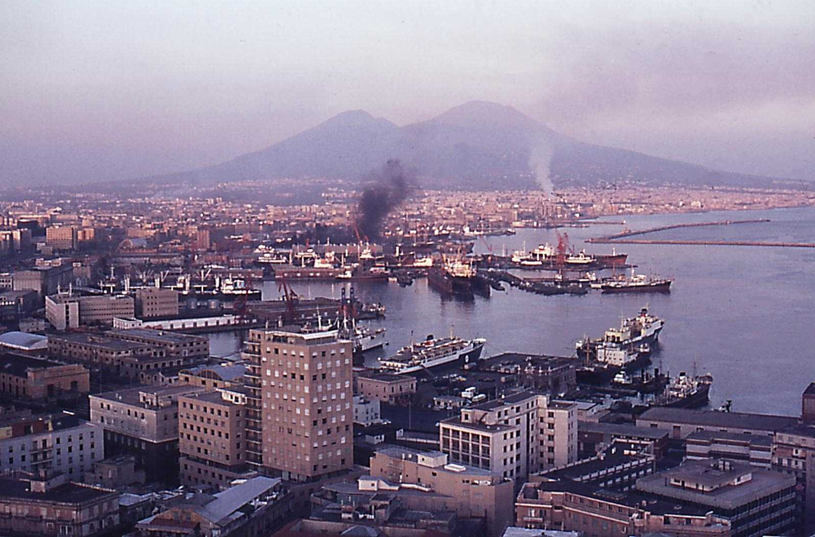 Naples, overlooking the harbor (Molo Beverello), the city and in the background the Mount Vesuvius - 1973